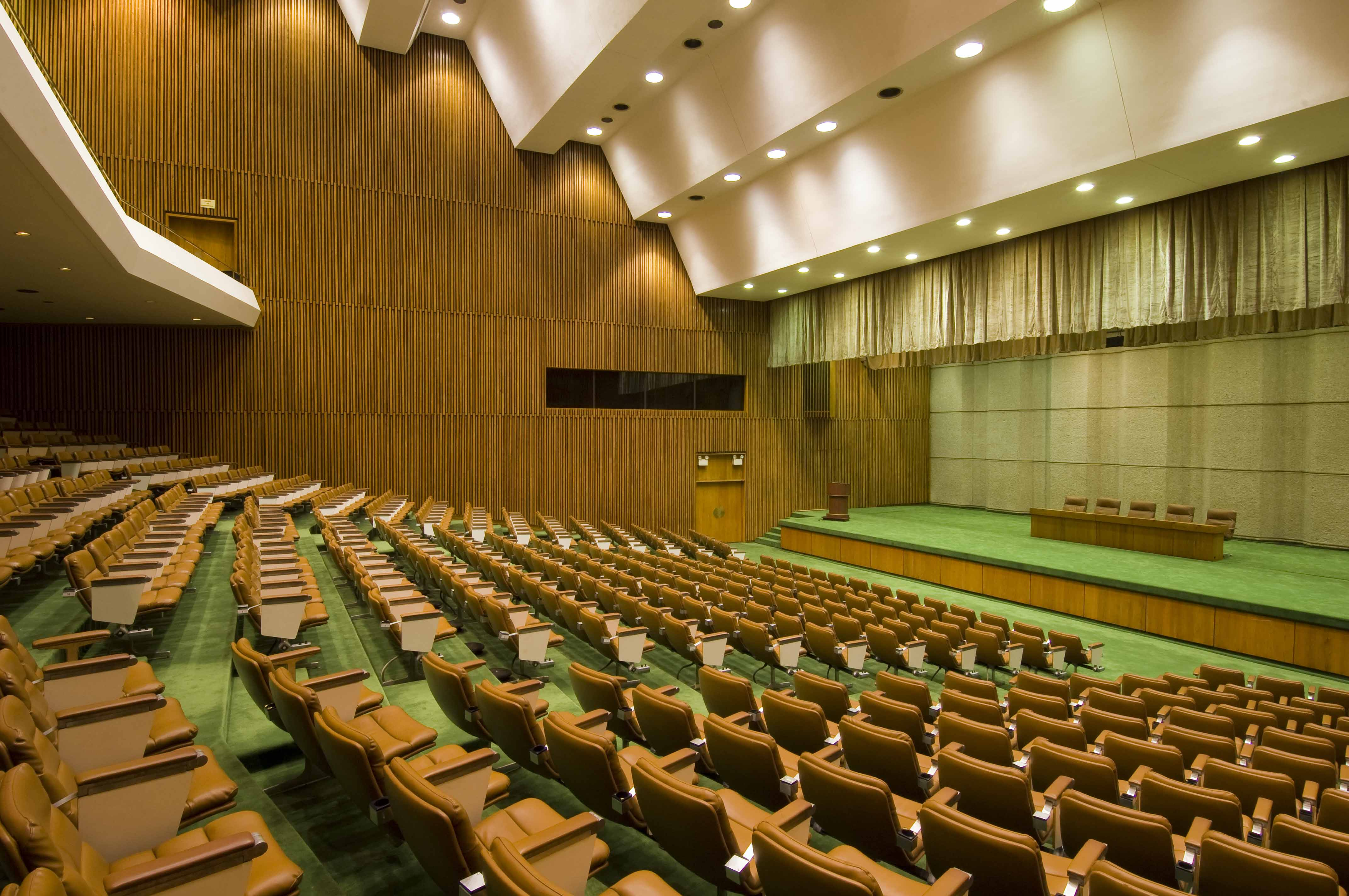 Interior of the auditorium of the Cenral Bank of the Dominican Republic, in Santo Domingo